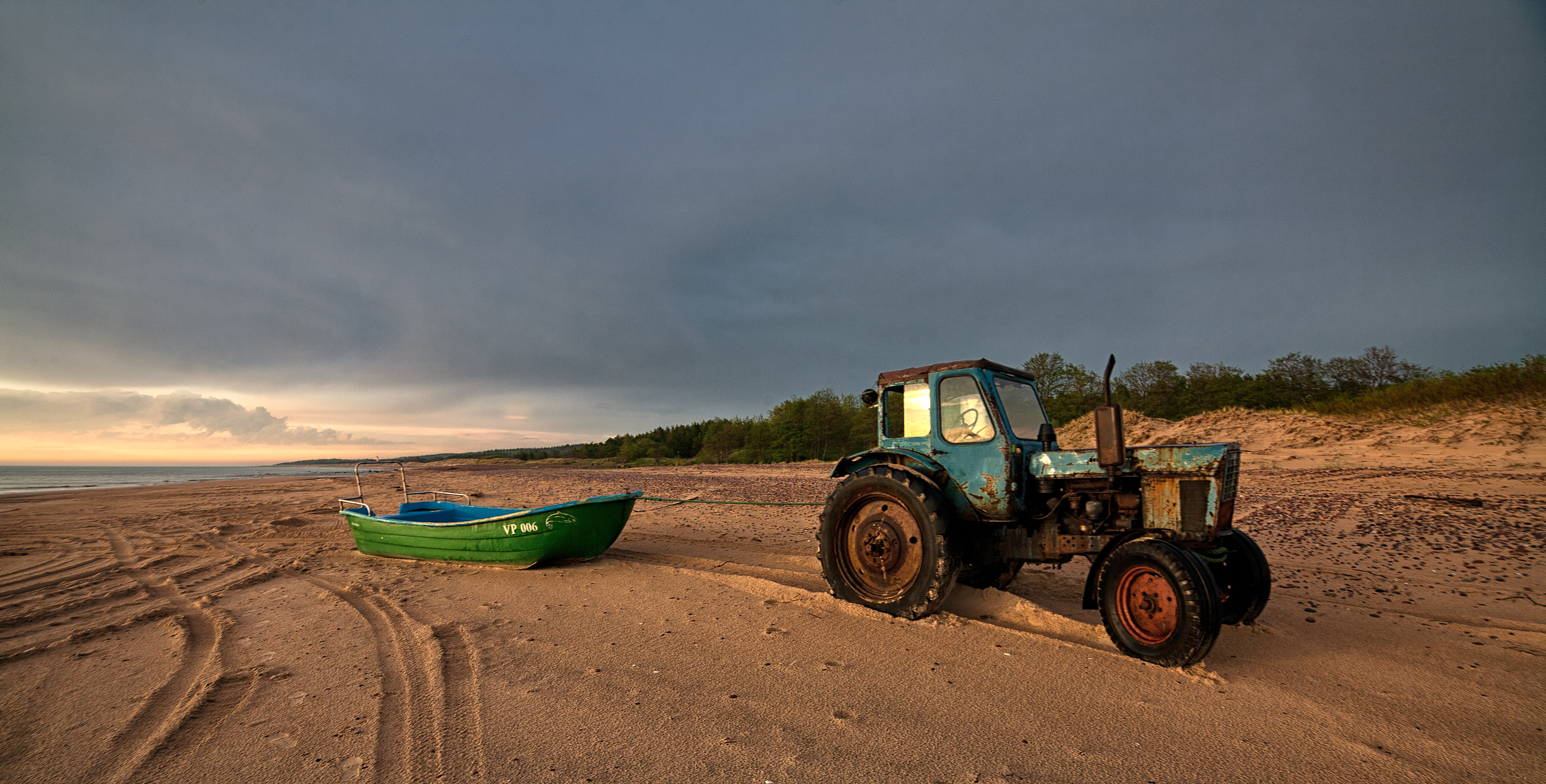 Shore of the Baltic Sea near Užava, Užava nature reserve. A tractor and boat that has been left at the beach.